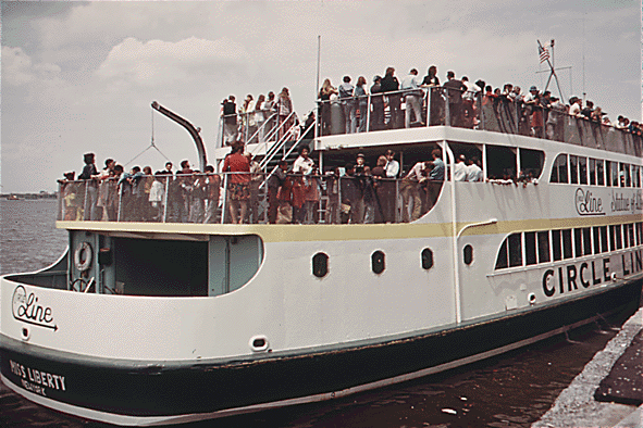 Tourists come to the Statue of Liberty by ferry, June 1973 Additional information: Creator(s): Environmental Protection Agency. (12/02/1970 - ) Type(s) of Archival Materials: Photographs and other Graphic Materials Contact(s): Still Picture Records Section, Special Media Archives Services Division (NWCS-S), National Archives at College Park, 8601 Adelphi Road, College Park, MD, 20740-6001. PHONE: 301-837-3530; FAX: 301-837-3621; . Production Date(s): 06/1973 Part Of: Series: DOCUMERICA: The Environmental Protection Agency's Program to Photographically Document Subjects of Environmental Concern, compiled 1972 - 1977 Access Restriction(s): Unrestricted Use Restriction(s): Unrestricted Variant Control Number(s): Agency-Assigned Identifier: 090/11/005351 NAIL Control Number: NWDNS-412-DA-5351 Index Terms: Subjects Represented in the Archival Material: Environmental protection Natural resources Pollution New York (New York state, United States, North and Central America) inhabited place Contributors to Authorship and/or Production of the Archival Materials: Tress, Arthur, 1940-, Photographer